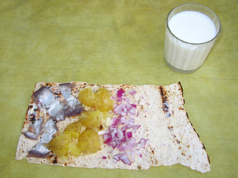 a so called swedish "klämma" with surströmming, potatoes and red onion on a "tunnbröd" with butter besides a glass of milk. author: myself tools: canon powershot s70; gimp 2.2